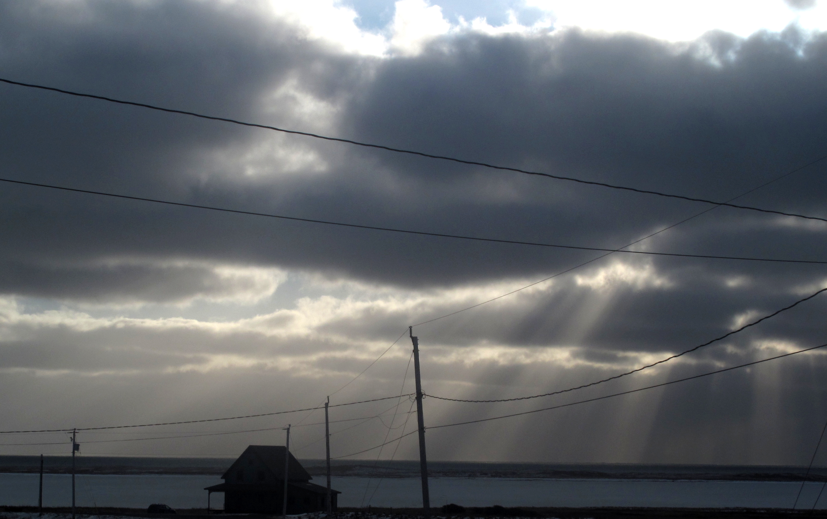 Pieds-de-vent, aux Îles-de-la-Madeleine.